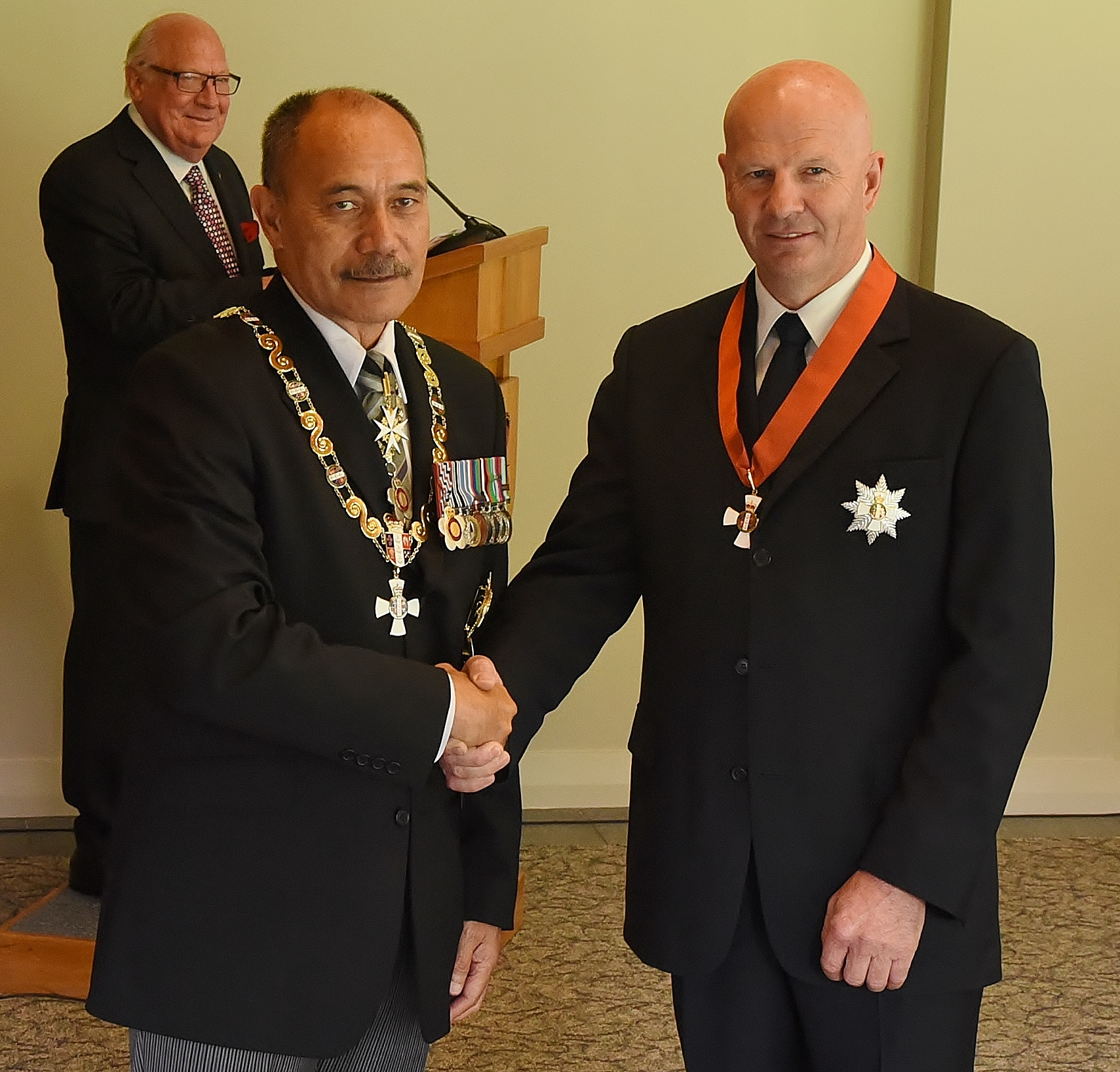 Sir David Fagan, of Te Kuiti, after his investiture as KNZM, for services to shearing, by the governor-general, Sir Jerry Mateparae, on 26 April 2016